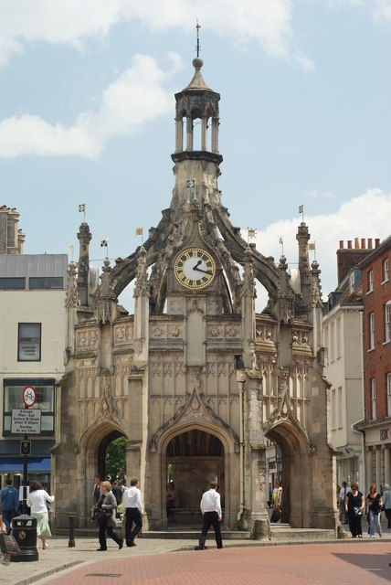 Chichester - Market Cross View from the end of West Street. Chichester_Cross